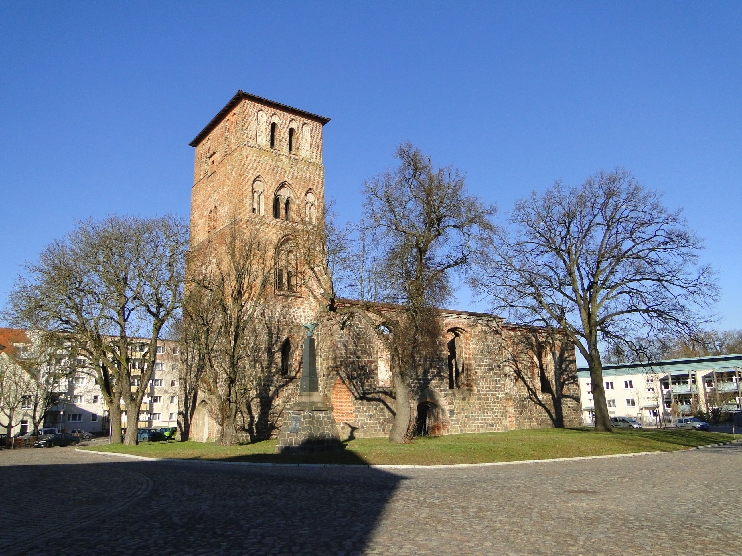 Church ruin St. Nikolai in Friedland, district Mecklenburg-Strelitz, Mecklenburg-Vorpommern, Germany